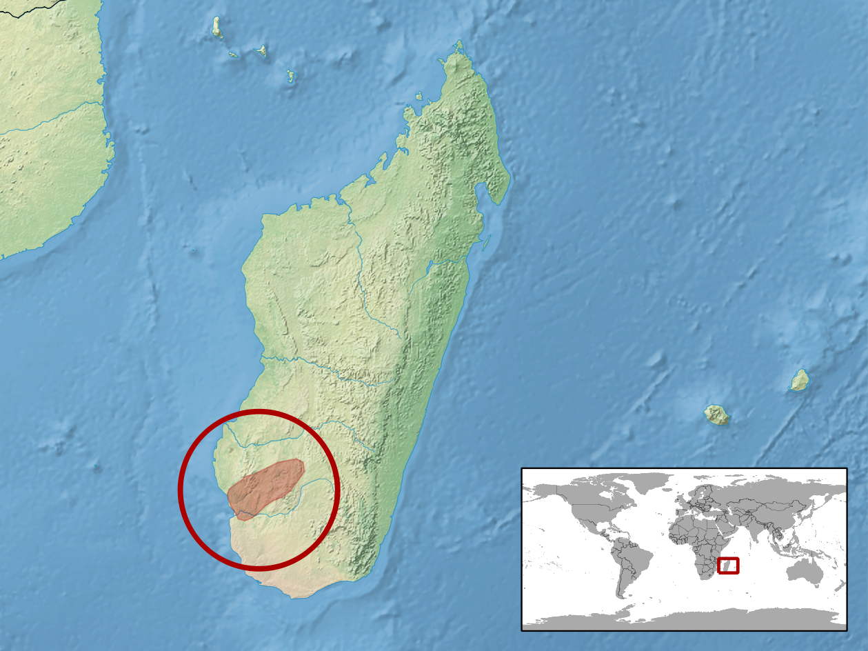 geographic distribution of Phelsuma standingi (Native: Madagascar)